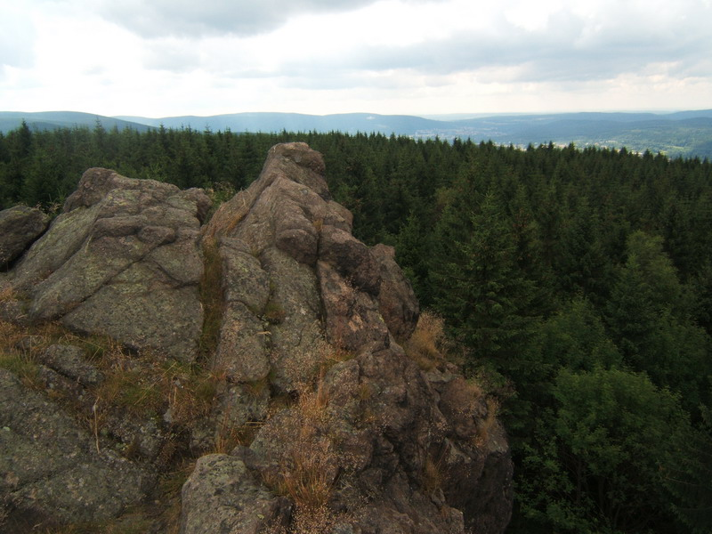 At the top of Gebrannter Stein, Thuringian Forest, Germany